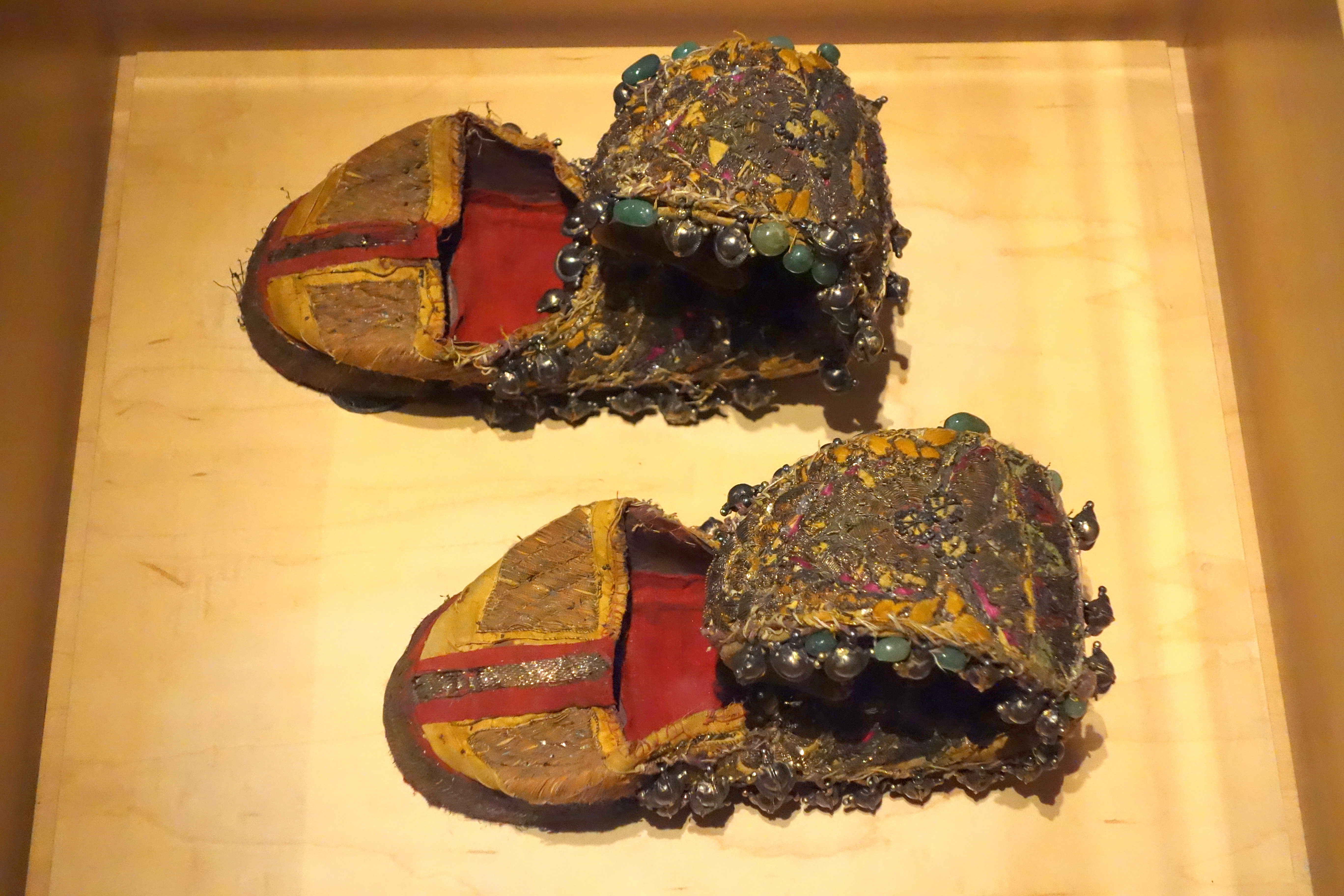 Exhibit in the Bata Shoe Museum, Toronto, Ontario, Canada. This item is old enough so that its design is in the public domain. The museum permitted photography without restriction.